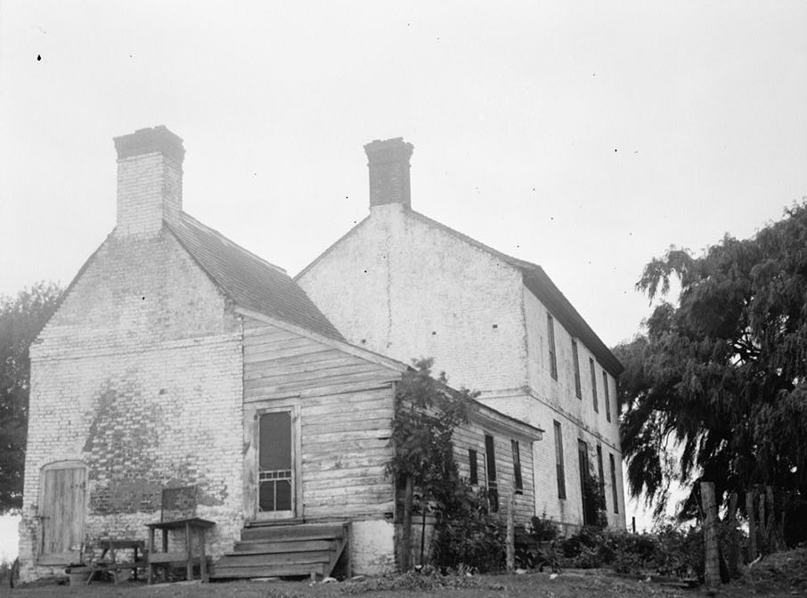 Pitts Neck Farm, State Route 709, New Church vicinity, (Accomack County, Virginia) cropped This file comes from the Historic American Buildings Survey (HABS), Historic American Engineering Record (HAER) or Historic American Landscapes Survey (HALS). These are programs of the National Park Service established for the purpose of documenting historic places. Records consist of measured drawings, archival photographs, and written reports. When reusing please credit: Library of Congress, Prints & Photographs Division, VA,1-NECH.V,2-1 This tag does not indicate the copyright status of the attached work. A normal copyright tag is still required. See Commons:Licensing for more information. This work is in the public domain in the United States because it is a work prepared by an officer or employee of the United States Government as part of that person’s official duties under the terms of Title 17, Chapter 1, Section 105 of the US Code. Note: This only applies to original works of the Federal Government and not to the work of any individual U.S. state, territory, commonwealth, county, municipality, or any other subdivision. This template also does not apply to postage stamp designs published by the United States Postal Service since 1978. (See § 313.6(C)(1) of Compendium of U.S. Copyright Office Practices). It also does not apply to certain US coins; see The US Mint Terms of Use. This file has been identified as being free of known restrictions under copyright law, including all related and neighboring rights.